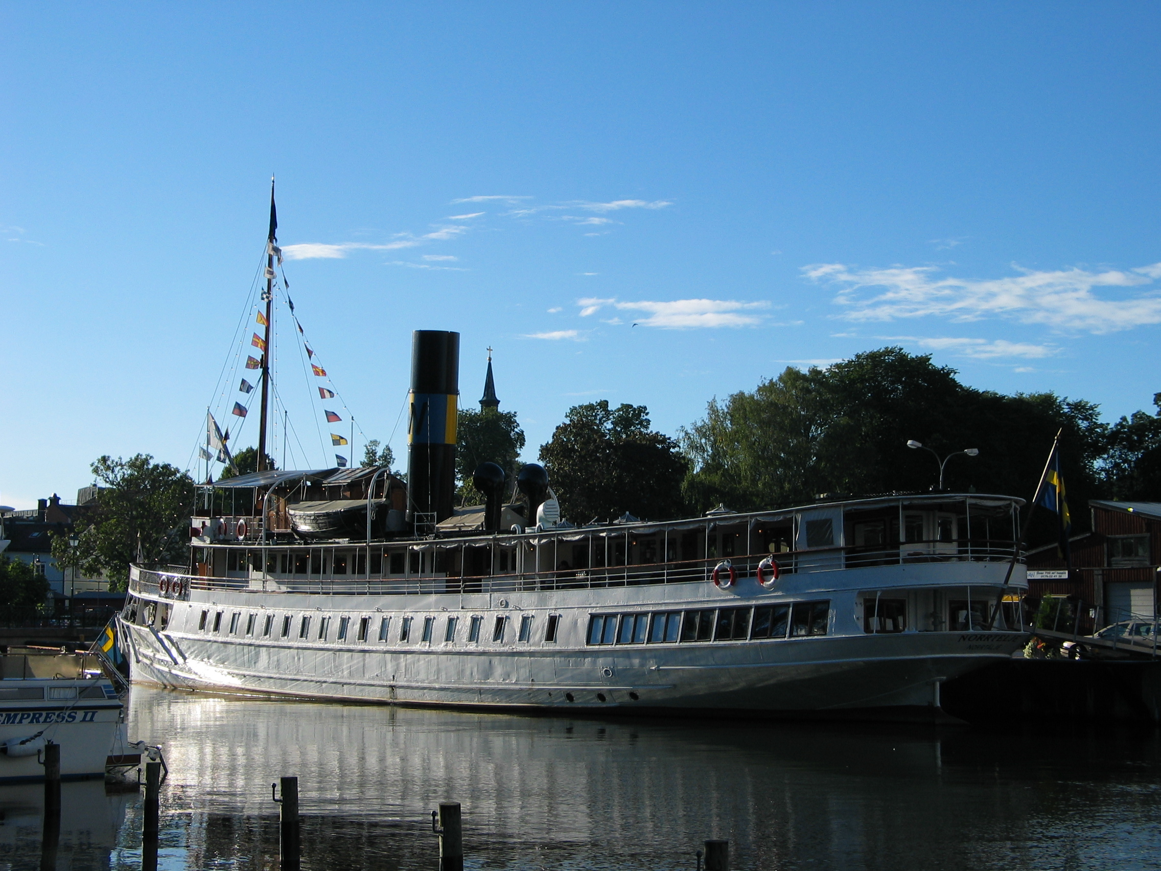 S/S Norrtelje, a ship serving as a restaurant in the harbor of Norrtälje, Sweden.